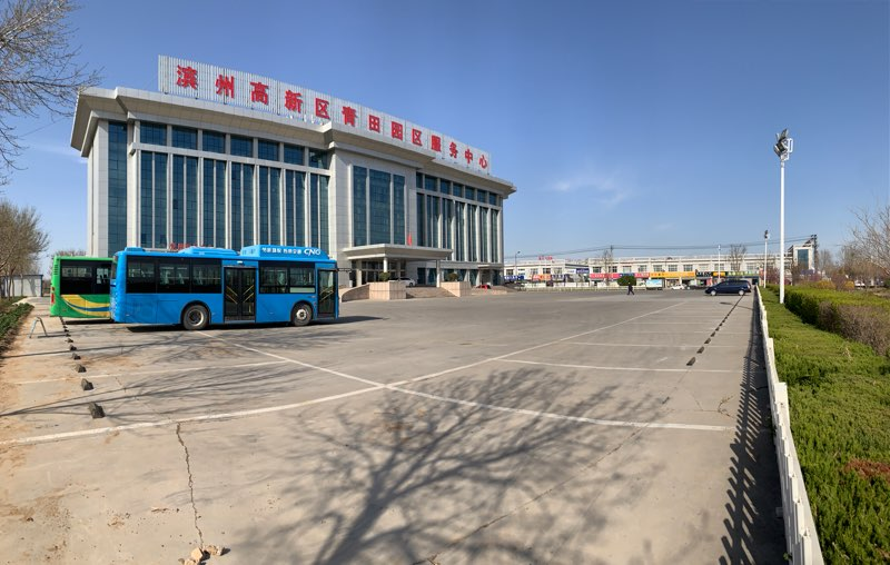 This is the local government of Qingtian Town. The town is located in the northern Shandong Province China. It is on the south bank of Yellow river and close to the outlet to East (Yellow) Sea of China. The town is famous for is produce of cotton, and wheat.